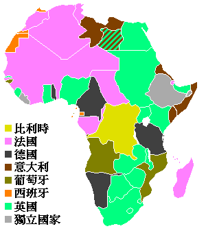 Map showing European claims on Africa in 1914